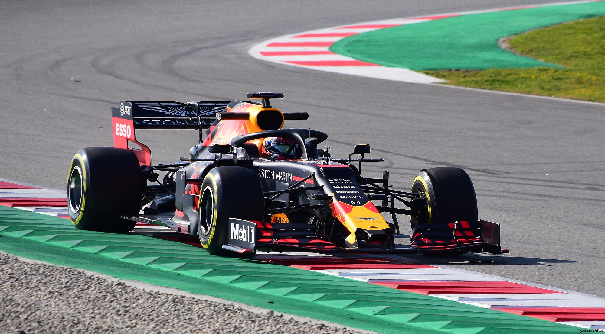 2019 Formula One Test Days / Circuit de Barcelona / Red Bull RB15 / Pierre Gasly / Aston Martin Red Bull Racing